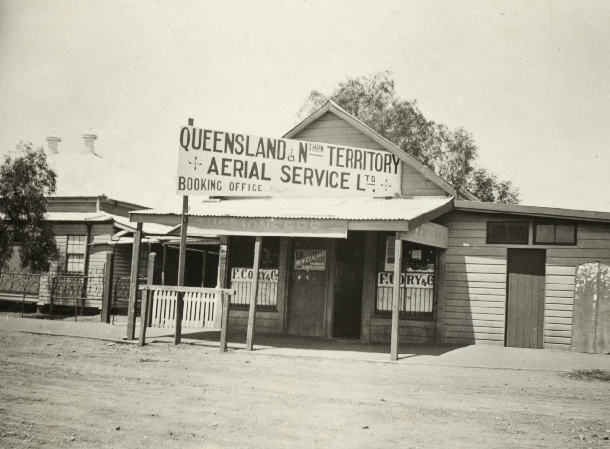 The original Qantas Office, Longreach, Queensland, 1921, vintage photographic print, Sir Hudson Fysh papers, ca.1817-1974, State Library of New South Wales, PX*D 294/vol. 6